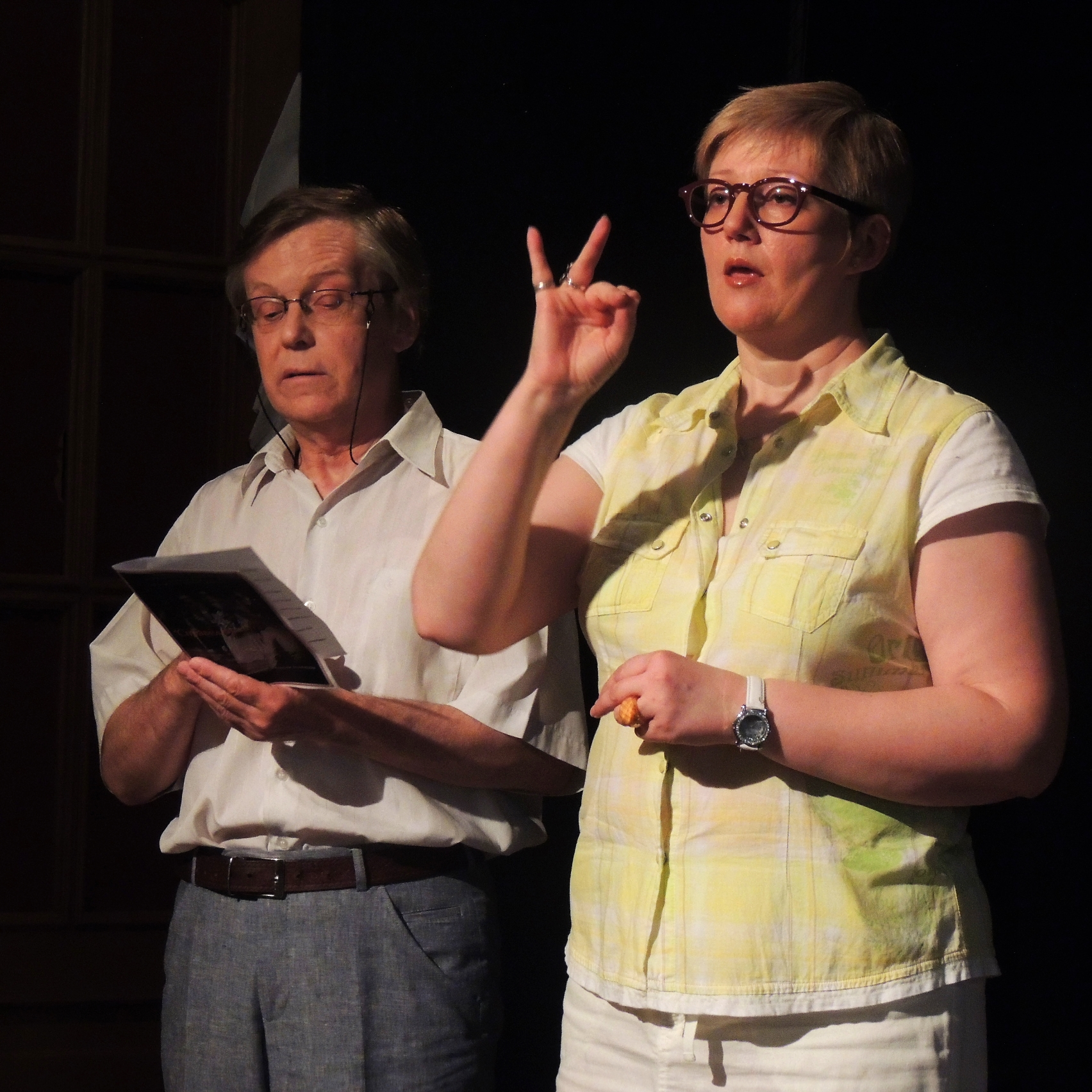 Varvara Romashkina, sign language interpreter